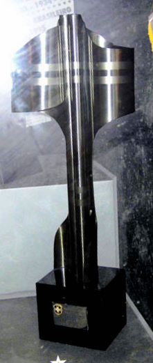 Photo of the trophy of Brazilian Championship won by Botafogo de Futebol e Regatas in 1995. Photo of the trophy of Brazilian Championship won by Botafogo de Futebol e Regatas in 1995.